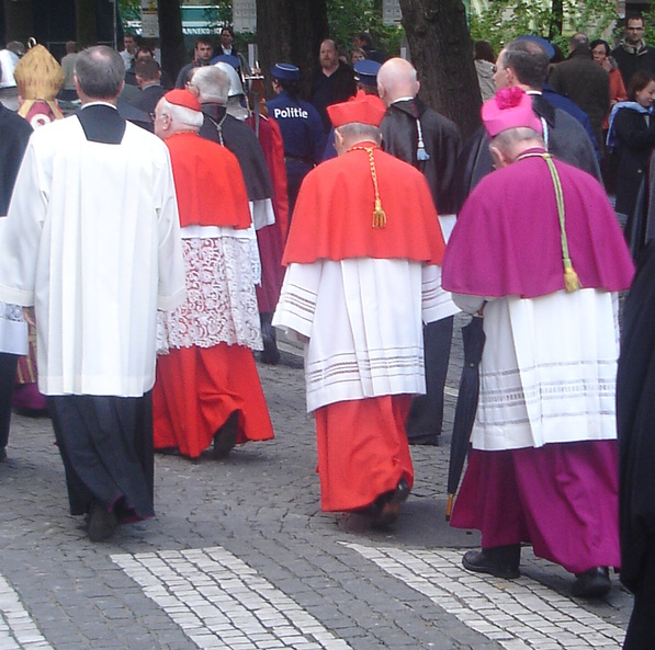 Cardinals and bishops in Bruges